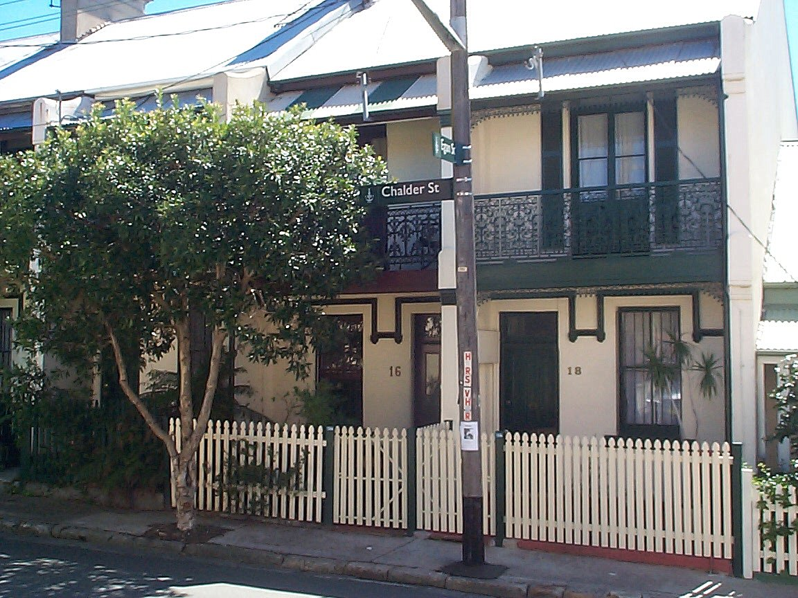 Photo taken by Michael Gardner, March 2007